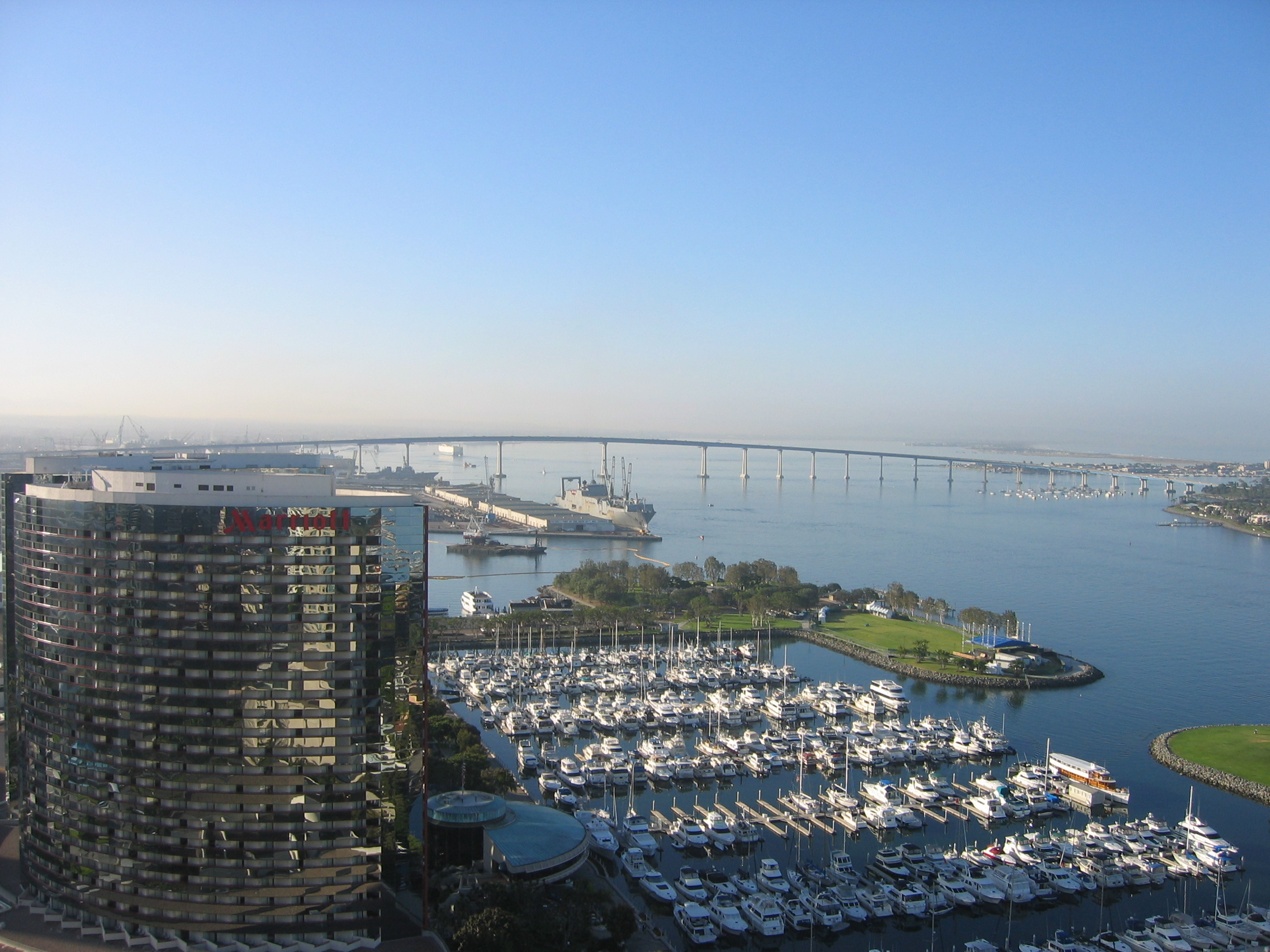 Photo taken from the hotel room near the San Diego Convention Center. The Center is on the other side of that Marriott, and the bridge is the "Coronado Bridge," Those boats are in the Embarcadero Marina Park.